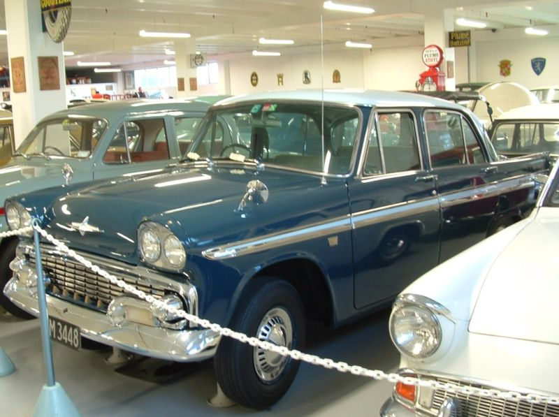 Prince Skyline ALSI-2